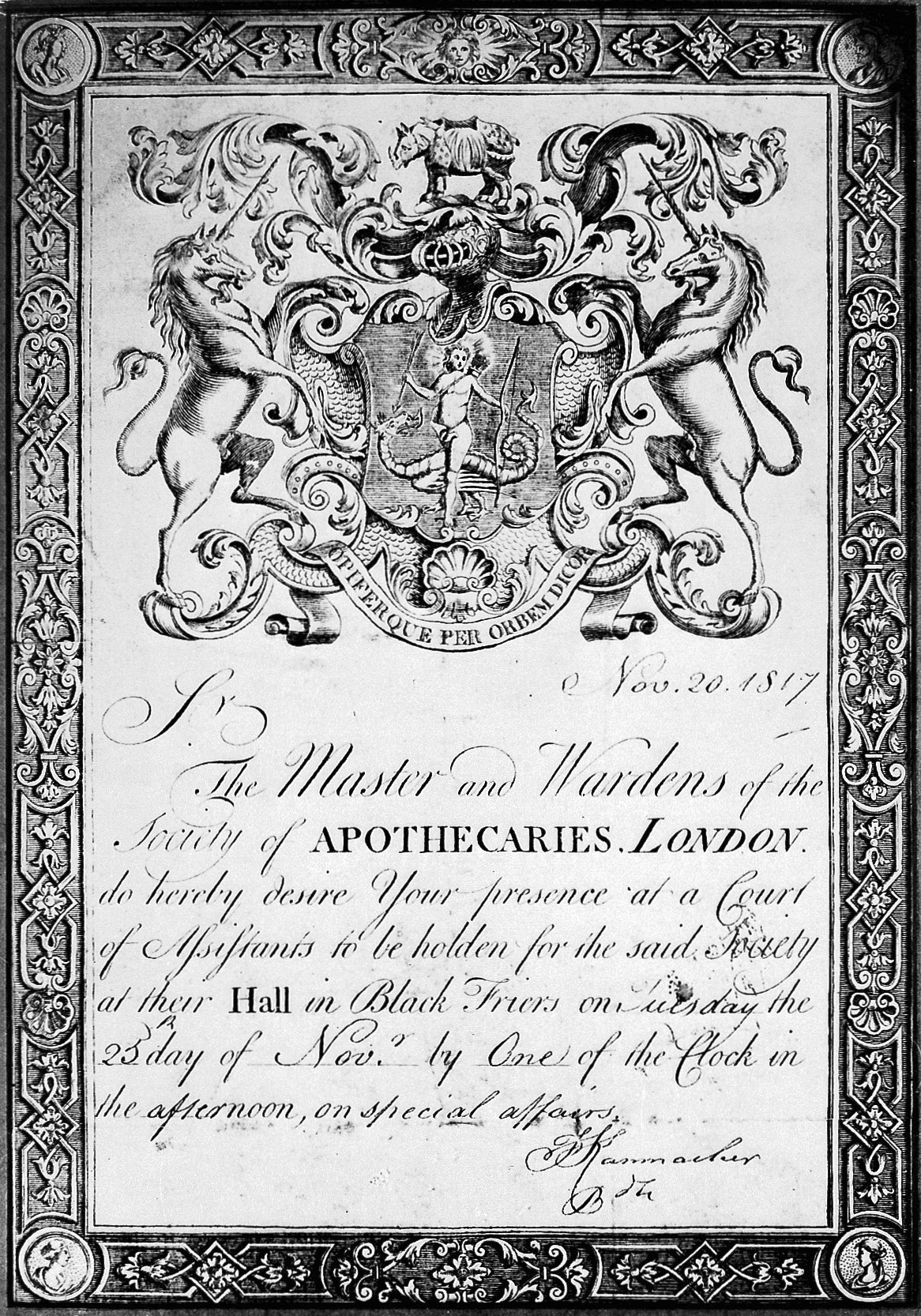 Worshipful Society of Apothecaries. Summons to appear at a Court in the above Society, dated 20 November 1817. Wellcome Images Keywords: Institutions